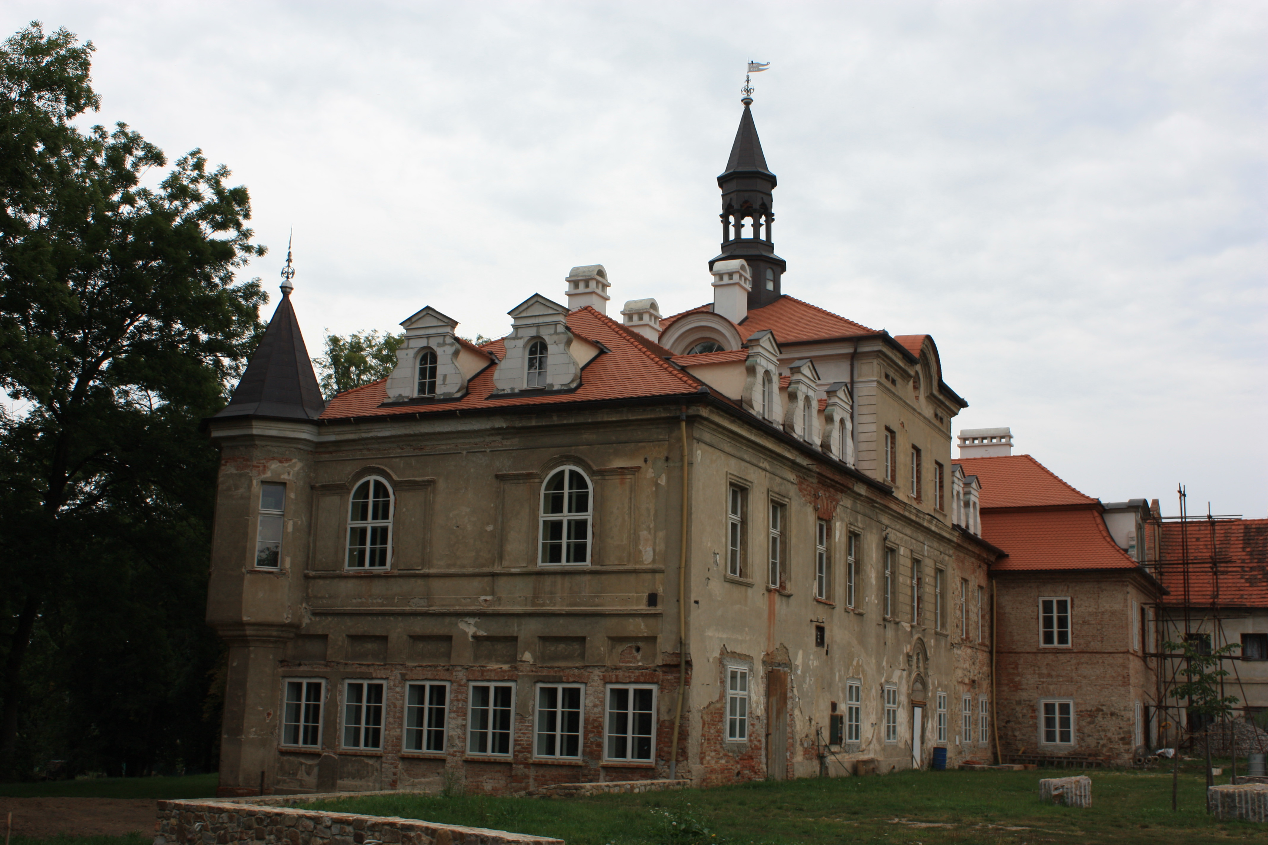 Svinaře (Central Bohemia), Czechia - Chateau Svinaře.